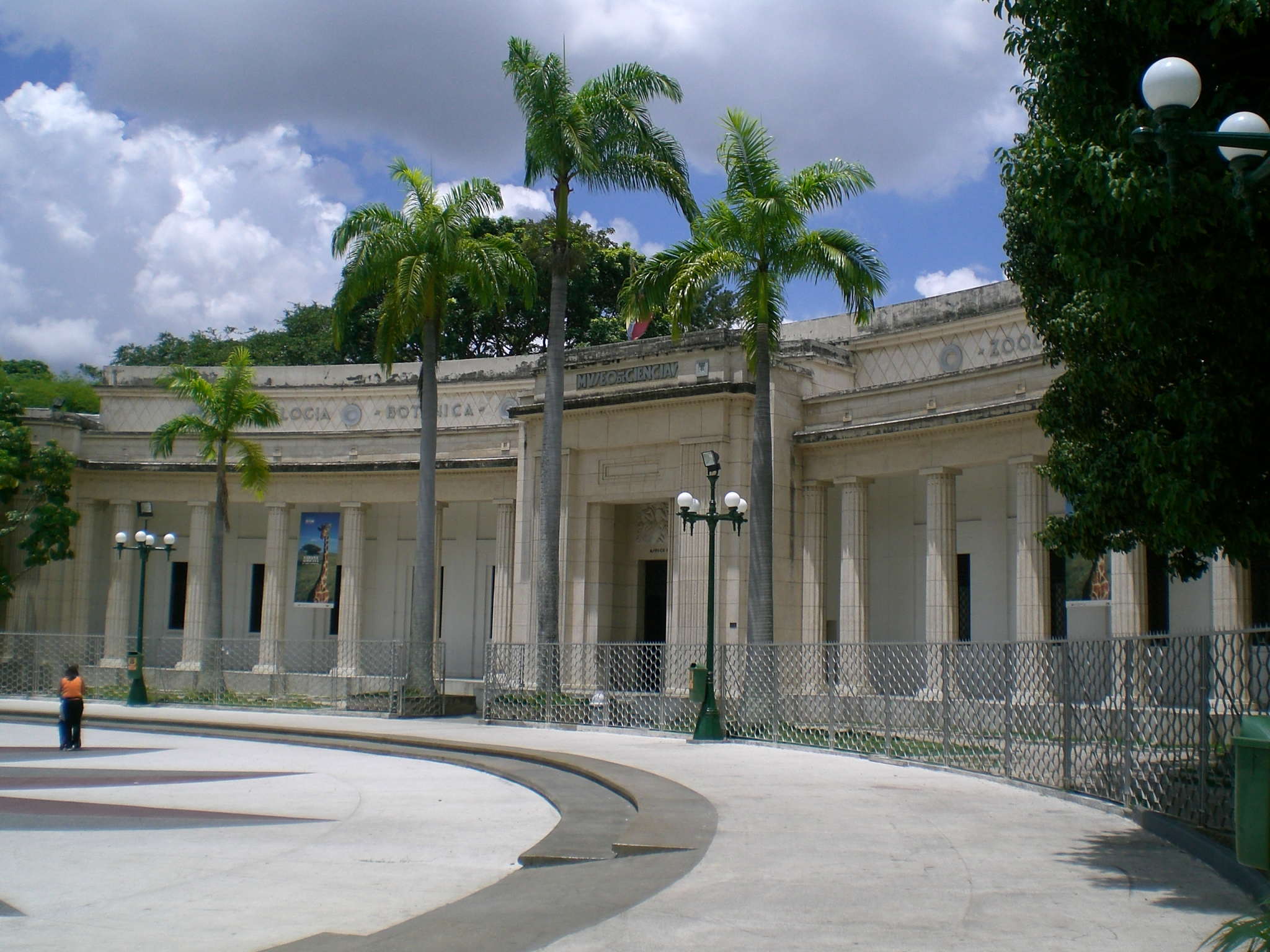 Science Museum of Caracas.